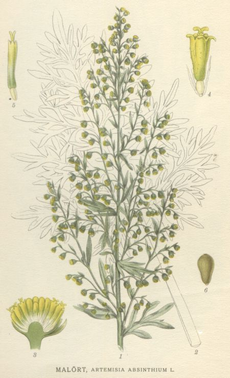 Artemisia absinthium